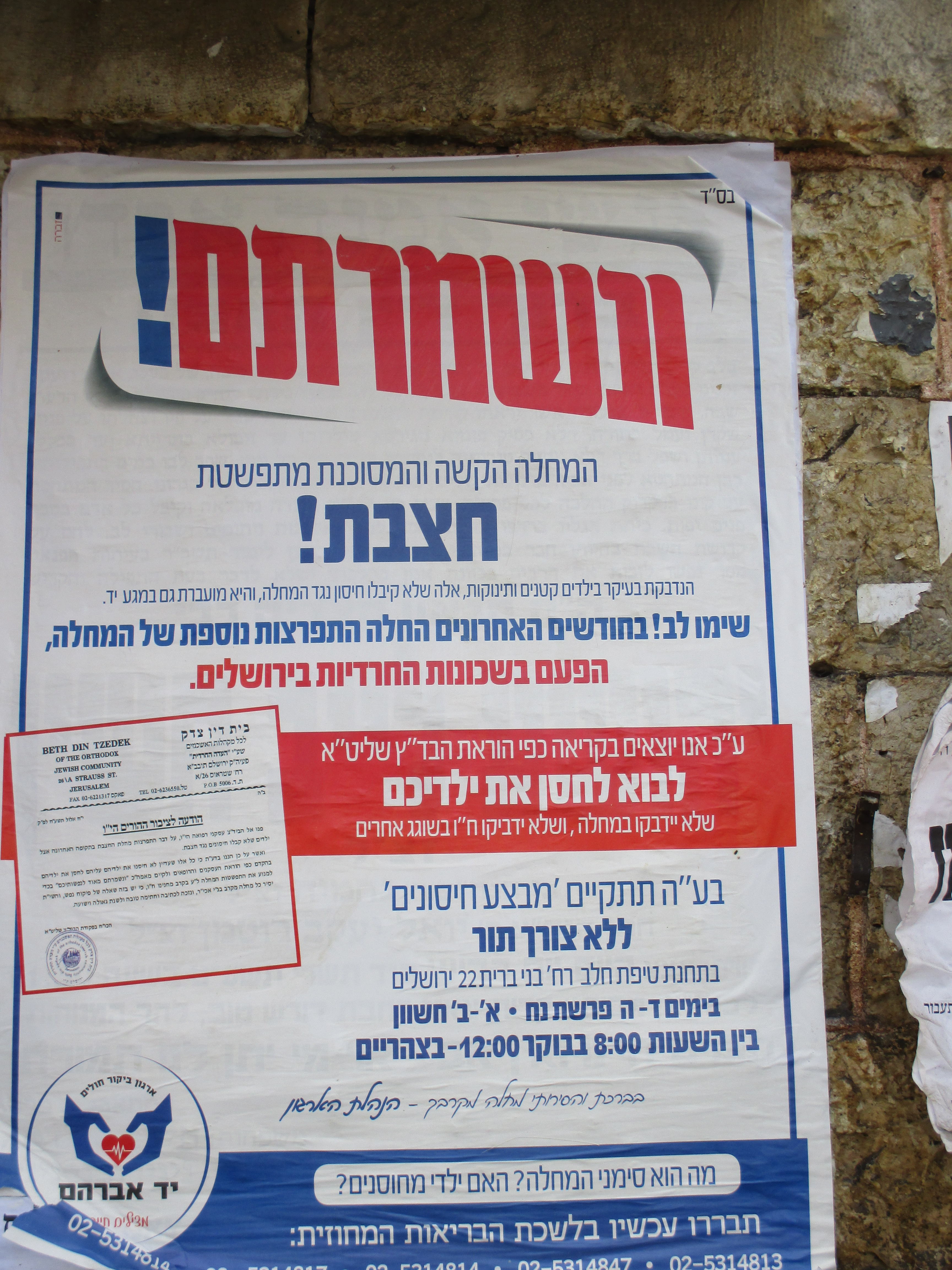 Flyer in the Mea She'arim neighborhood where the Ministry of Health calls on the public to be vaccinated against measles